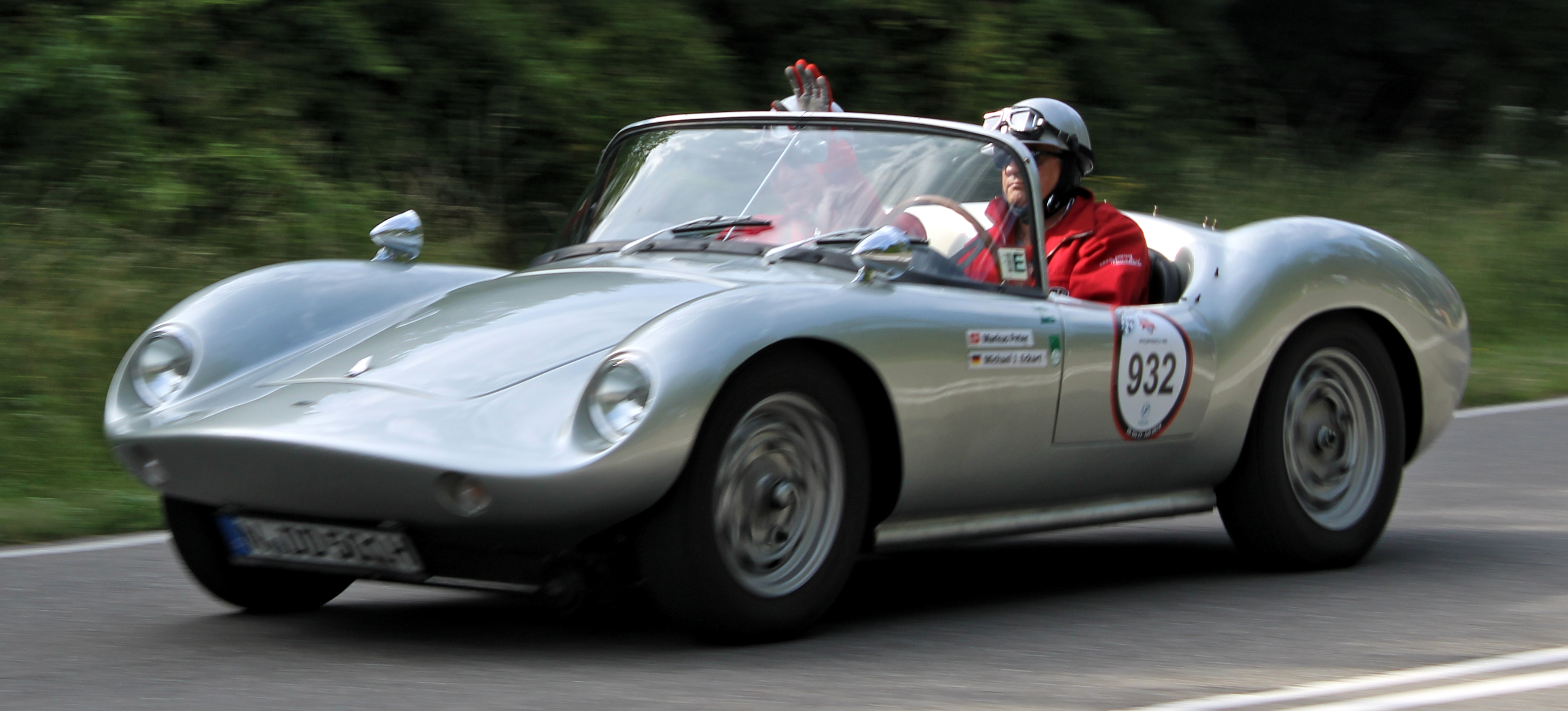 Devin Porsche D (1959) at Solitude Revival 2019